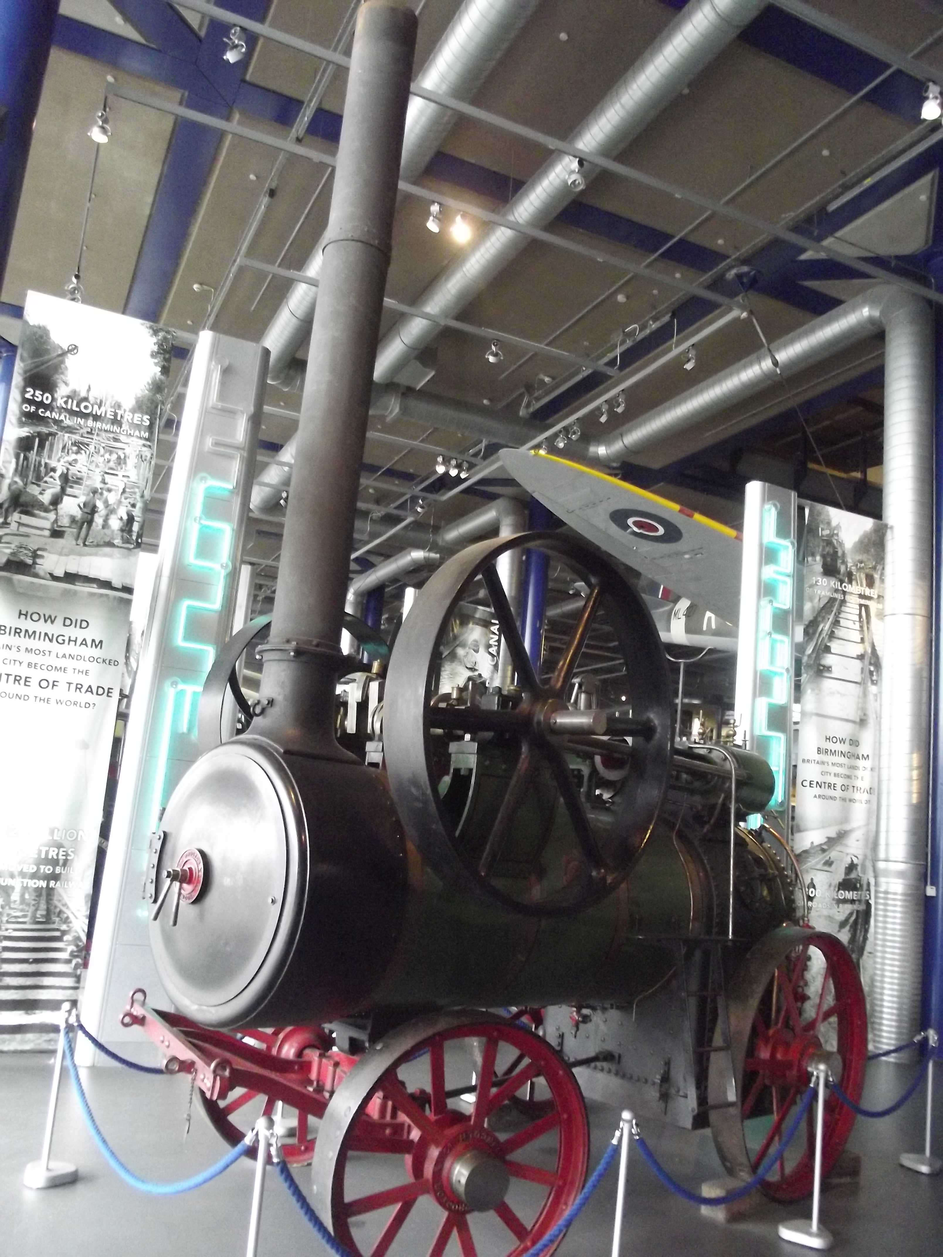 A collection of old vehicles on Level 0 of Thinktank Birmingham Science Museum. The area called "Move It" These were most likely in display at one time or another in the old Science Museum on Newhall Street (until 1997). When not on display, some of them had been stored at the Museum Collections Centre on Dollman Street in Nechells. A traction engine from Ruston Proctor & Co Ltd Lincoln. No 18188 12HP